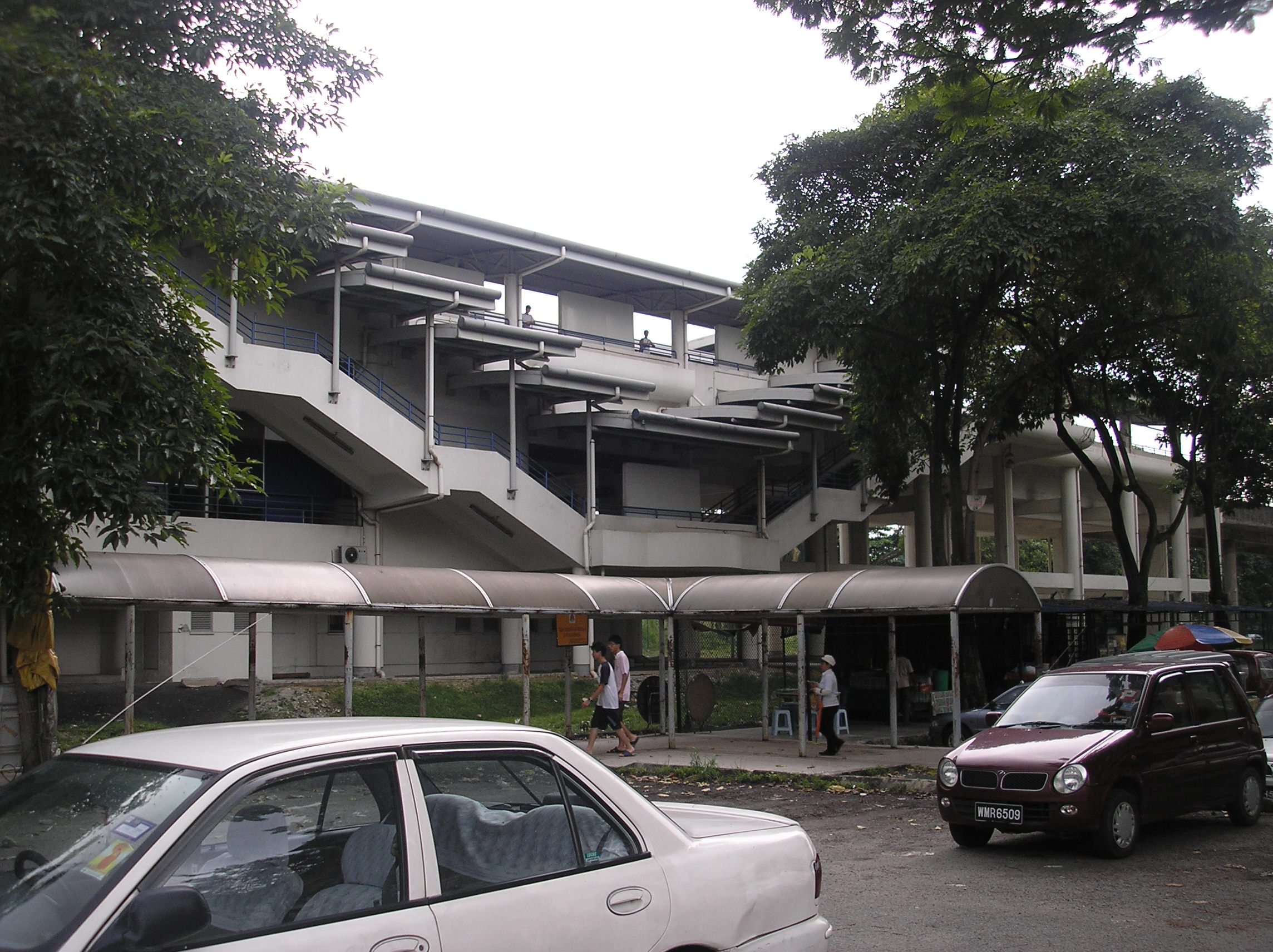 The exterior of the Maluri LRT station (Ampang Line), Kuala Lumpur, Malaysia.